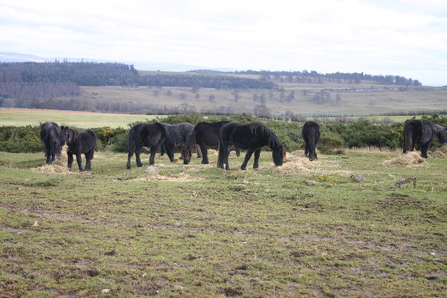 Ponies on Rough Land. The grazing here is too poor to support ponies and horses, hence the hay feed. The area is criss-crossed with bridleways, and riding is a popular pastime and industry here.